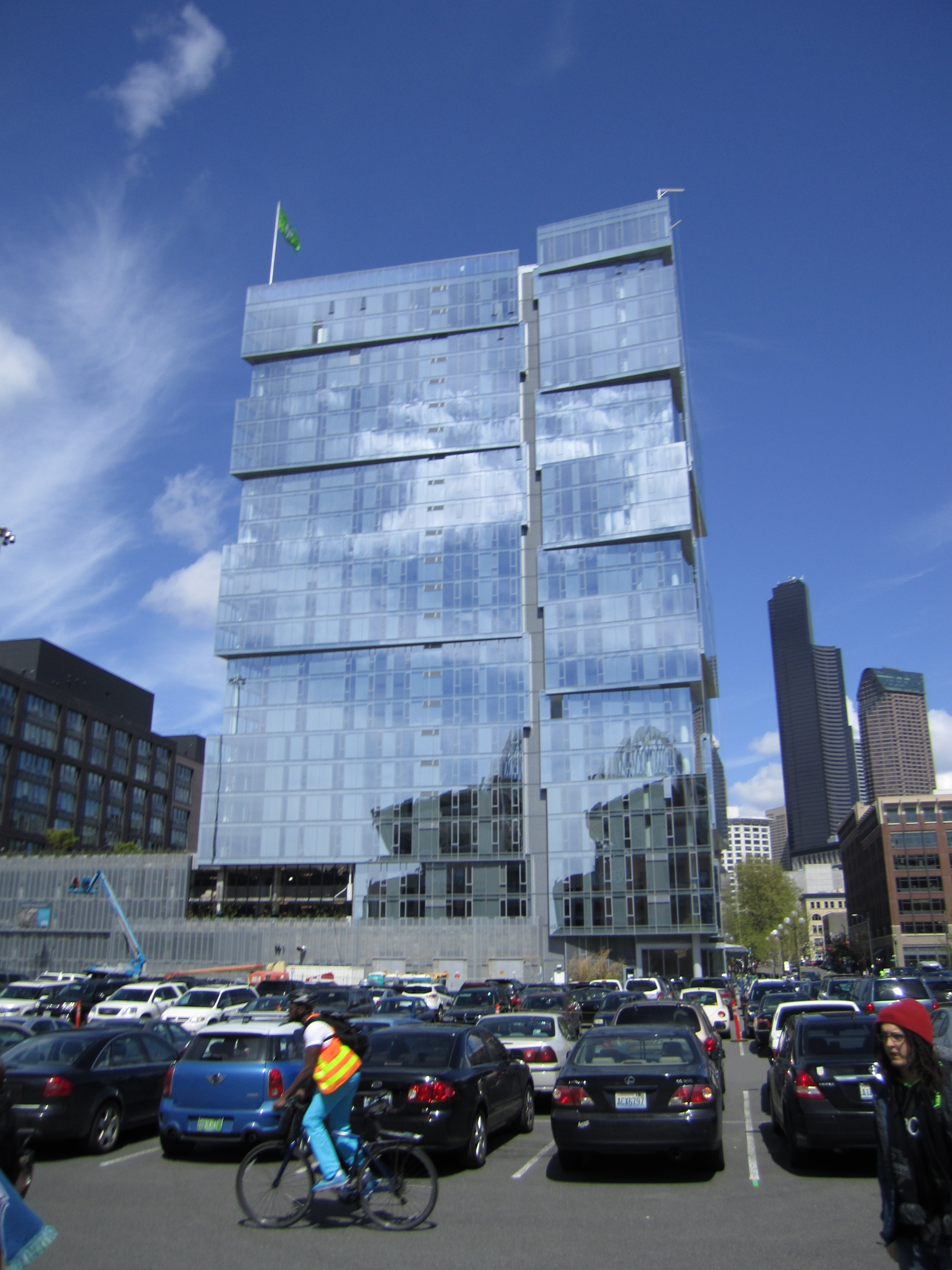 The West Tower of the Stadium Place complex in Seattle, Washington, as seen from the parking lot of CenturyLink Field.